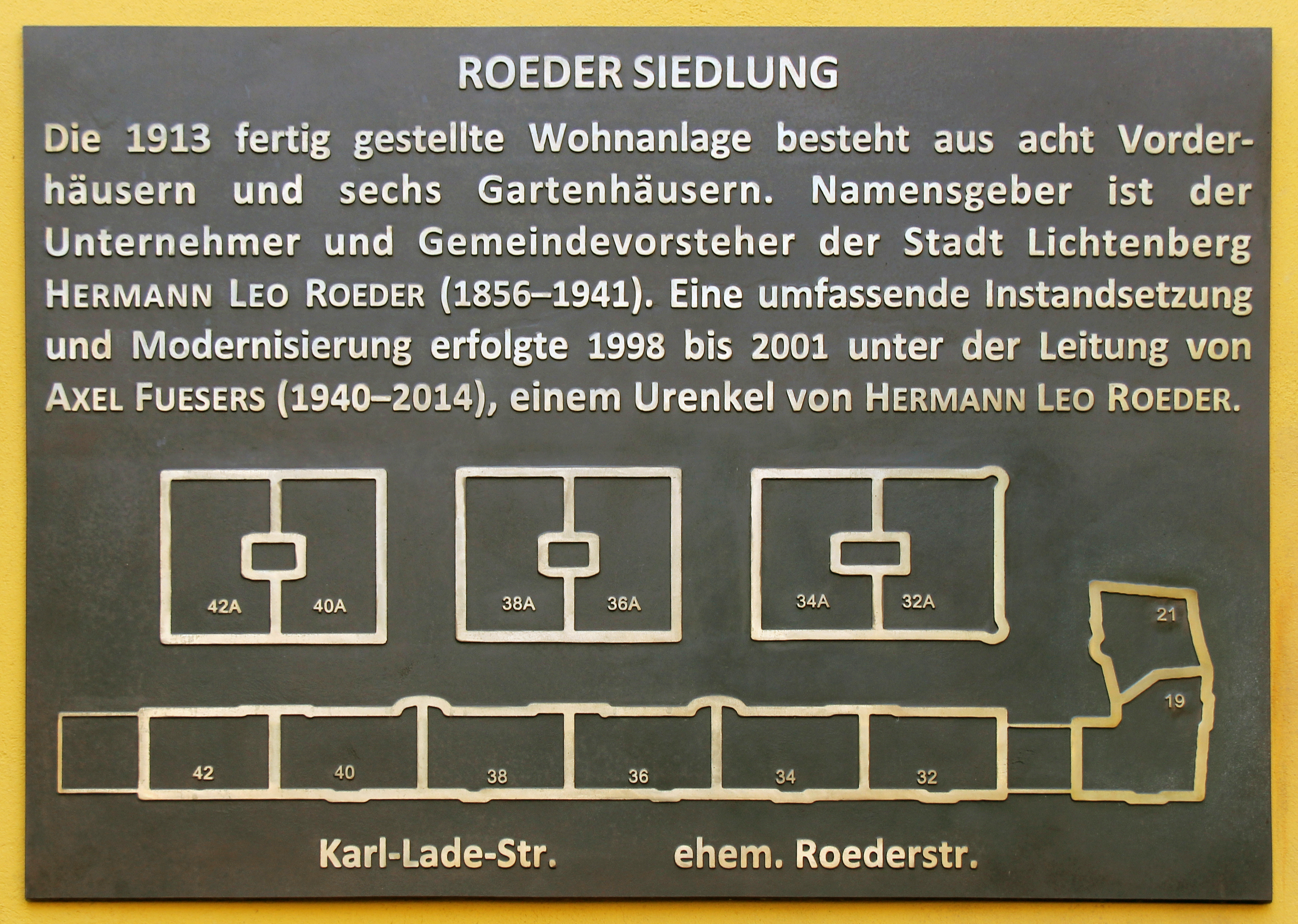 Memorial plaque, Roeder Siedlung, Karl-Lade-Straße 34, Berlin-Fennpfuhl, Deutschland